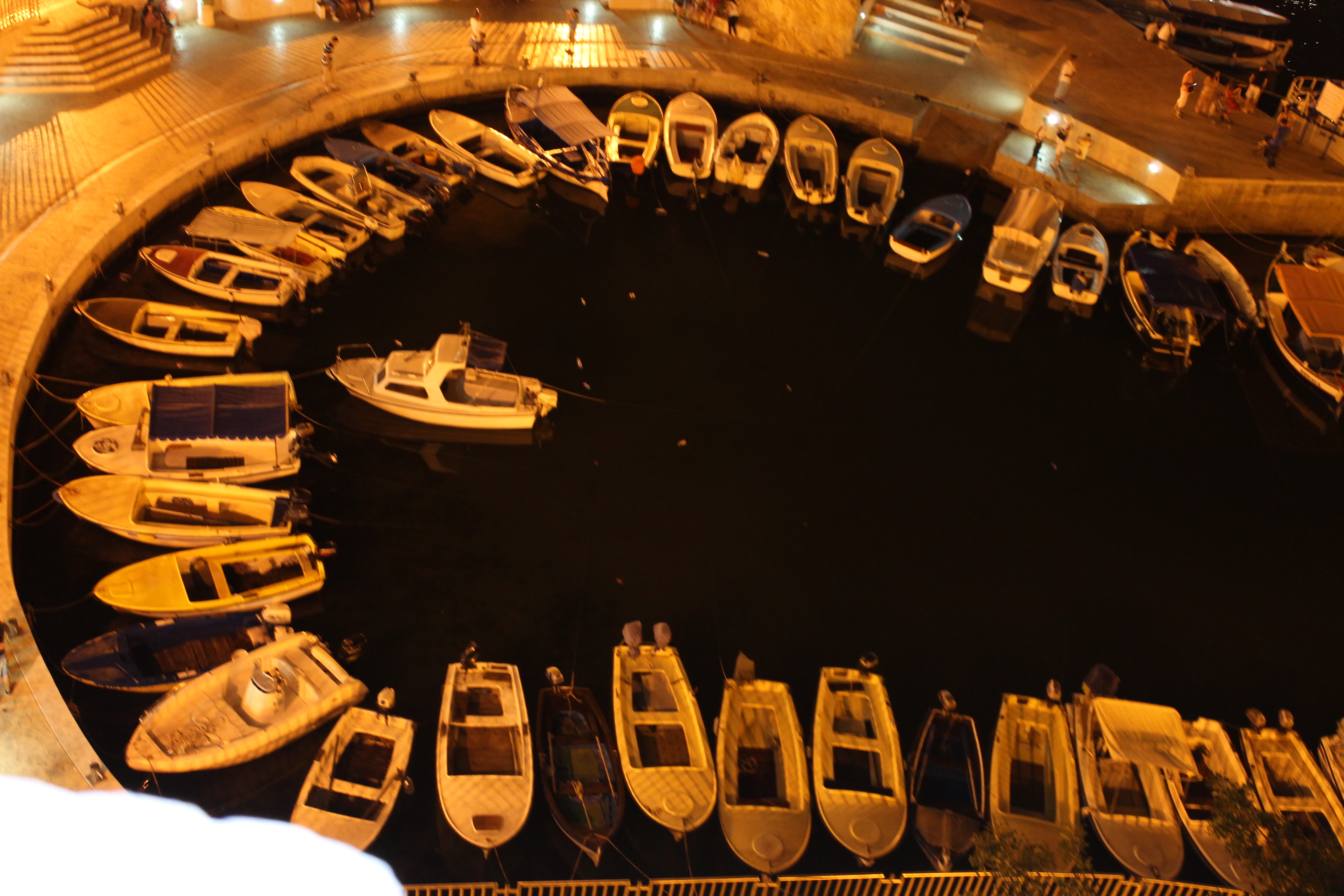 Dolcinium